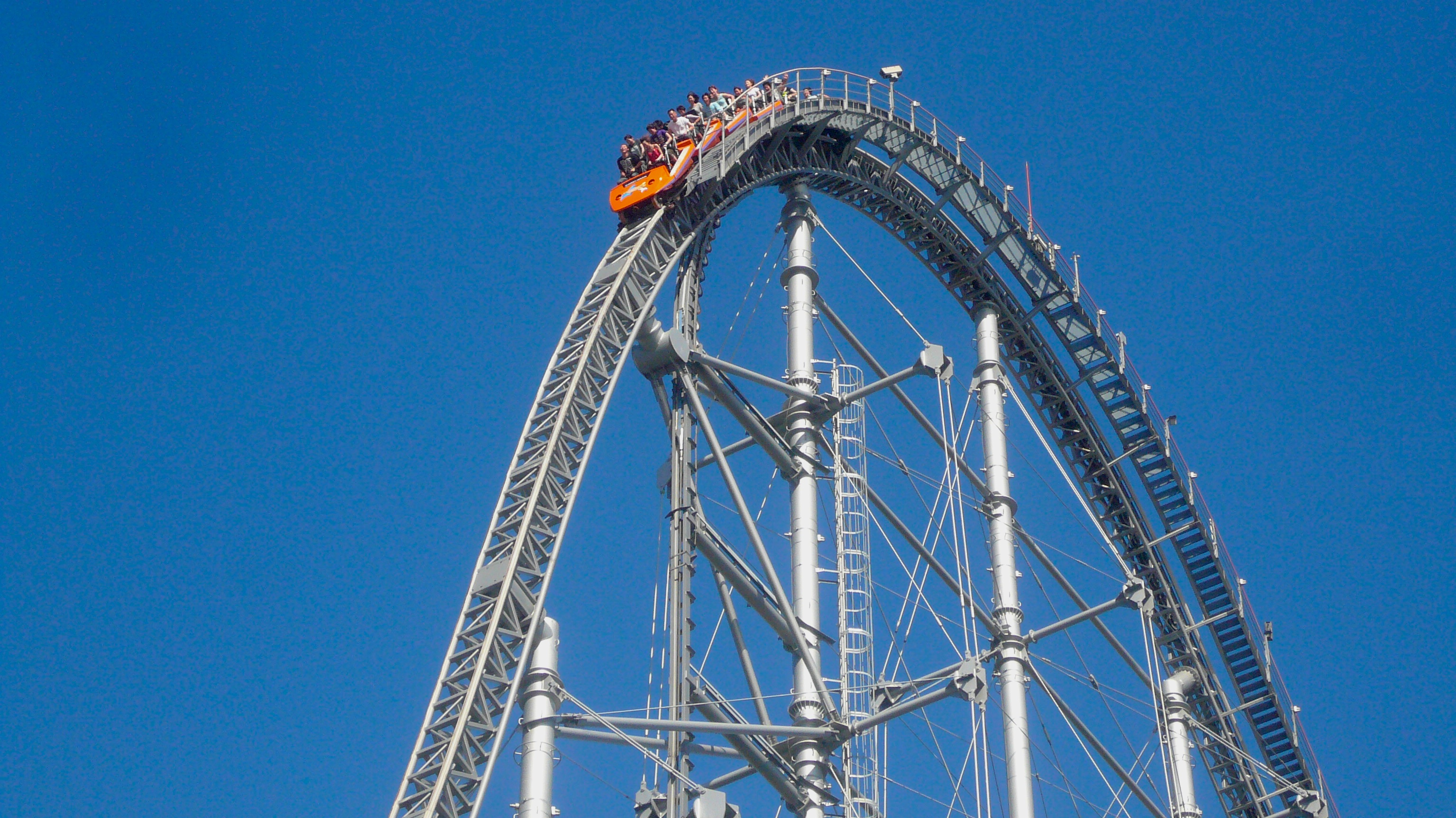 Thunder Dolphin (サンダードルフィン) is a steel roller coaster at the Tokyo Dome City Attractions amusement park, which is part of Tokyo Dome City in Tokyo, Japan.